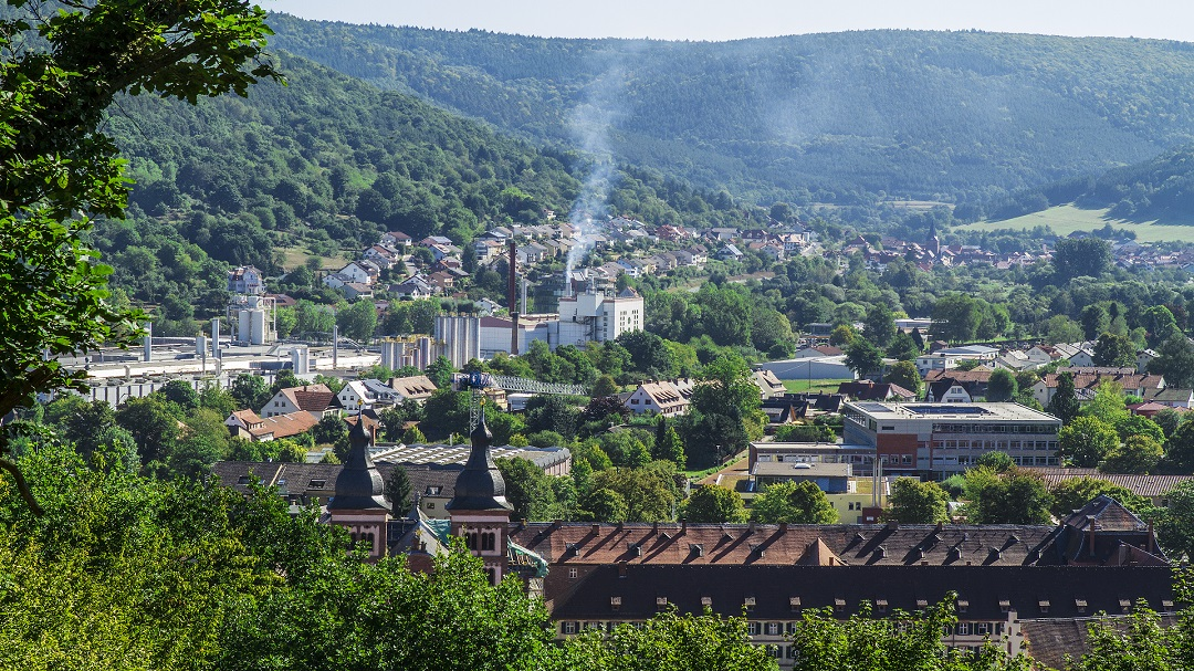 OWA Landscape